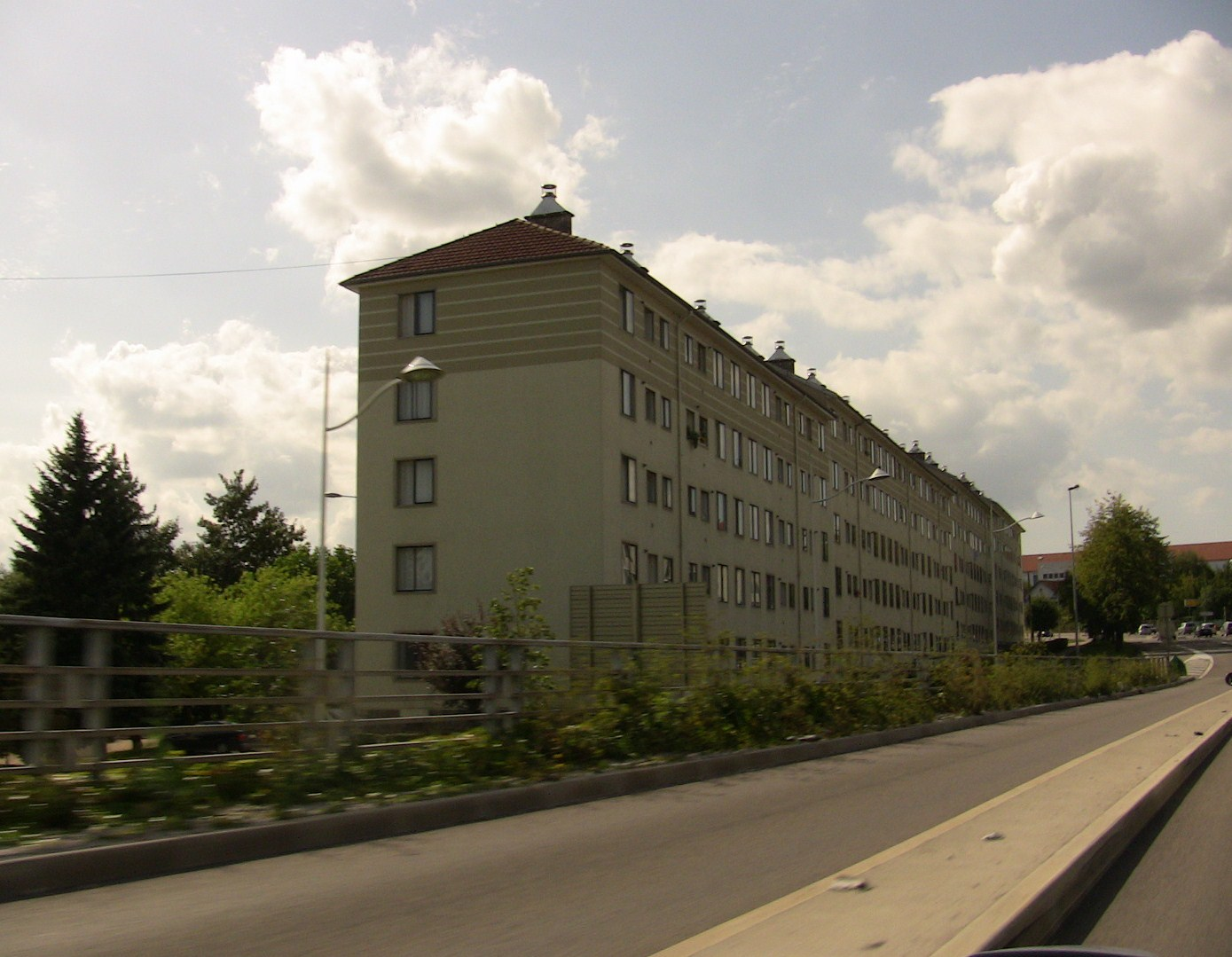 A building in Orchamps, area of Besançon (France)